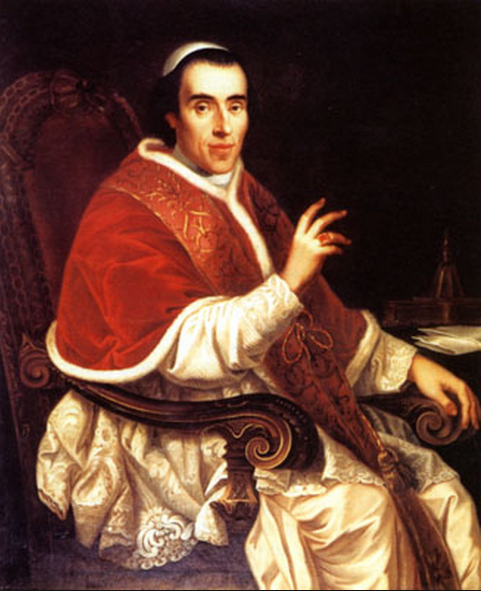 Portrait Pope Pius VII